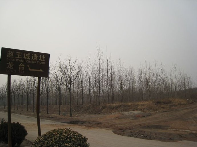 Zhao Handan Gucheng.